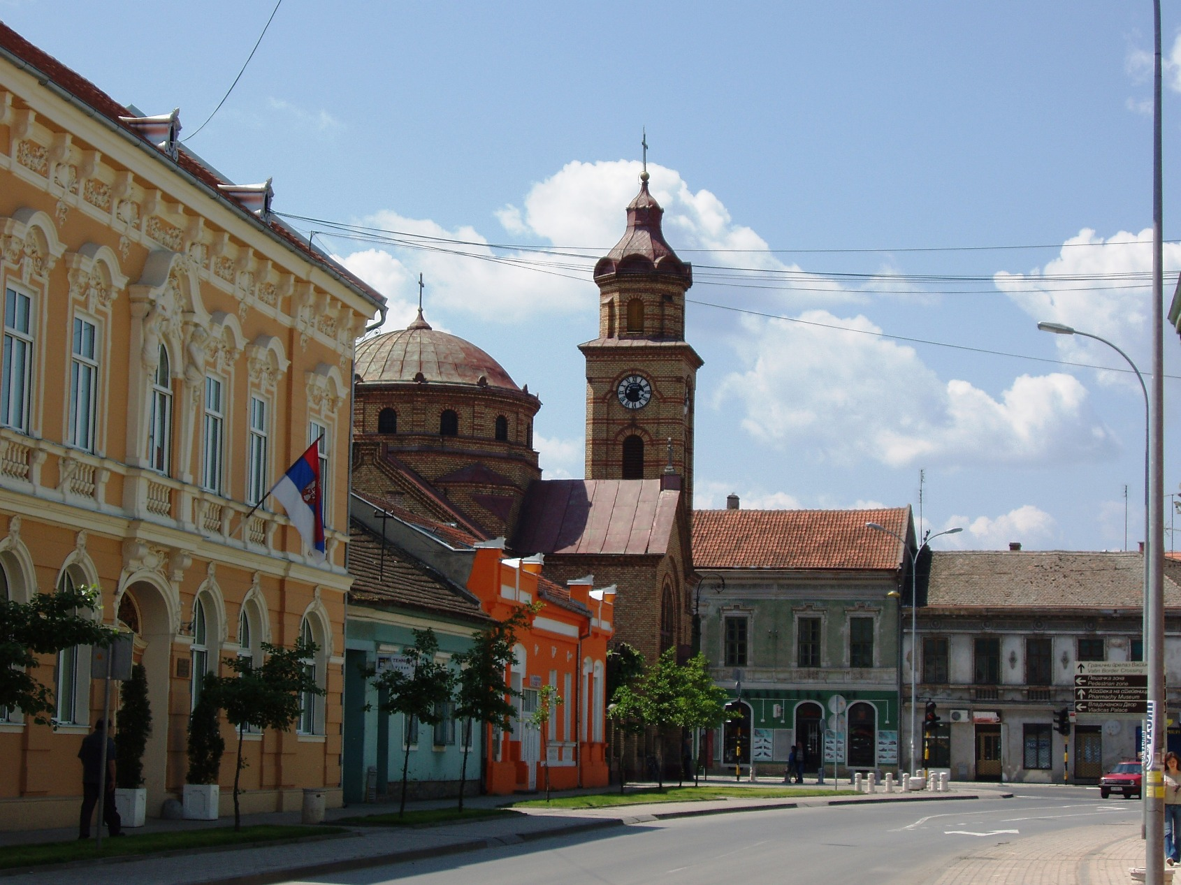 Romanian orthodox Church in Vršac, Vojvodina, Serbia